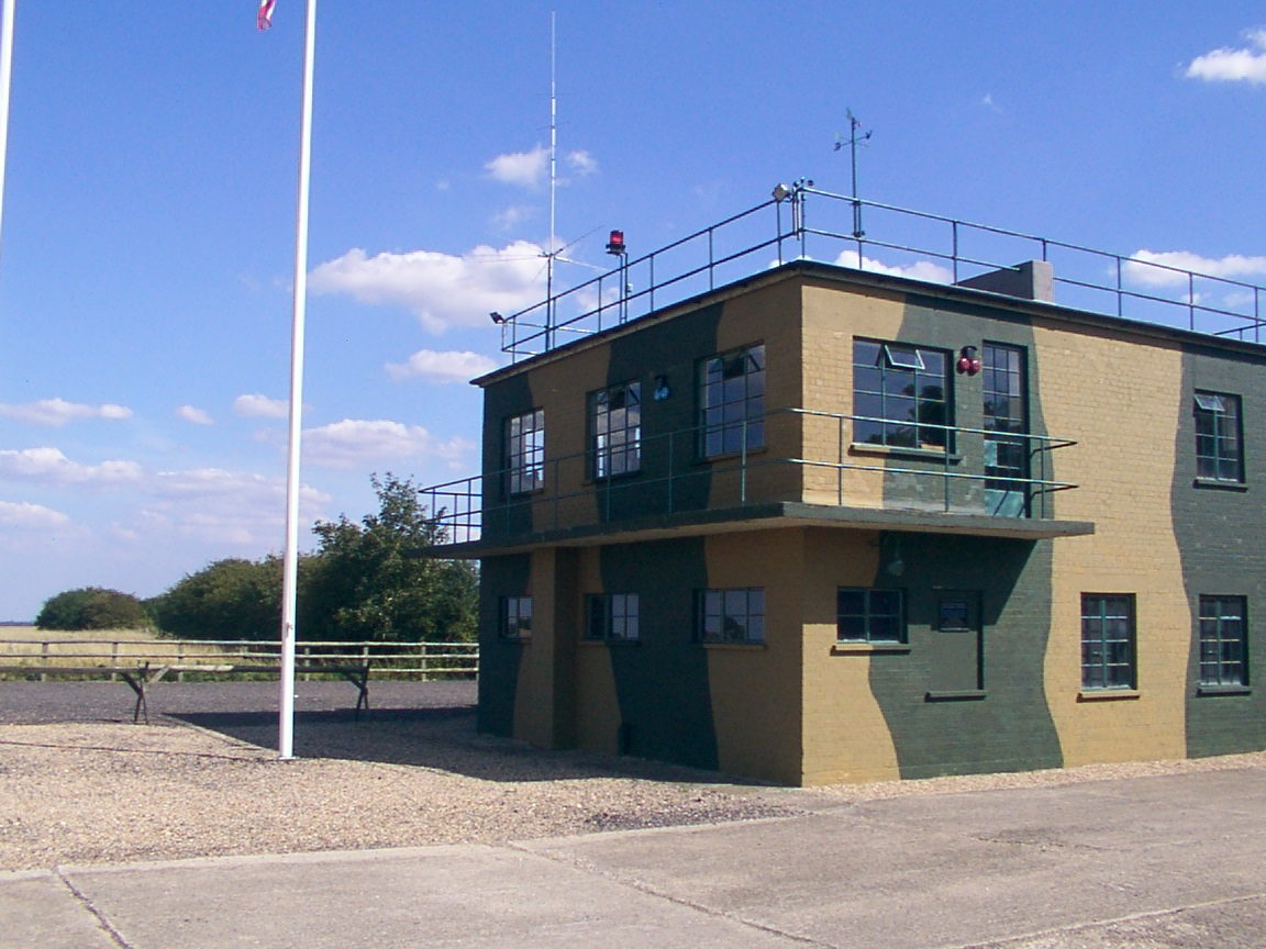 RAF Twinwood Control Tower restored in 2002 it contains a tribute to Major Alton Glenn Miller who took his final flight from here on the 15th December 1944. Photograph taken by MilborneOne